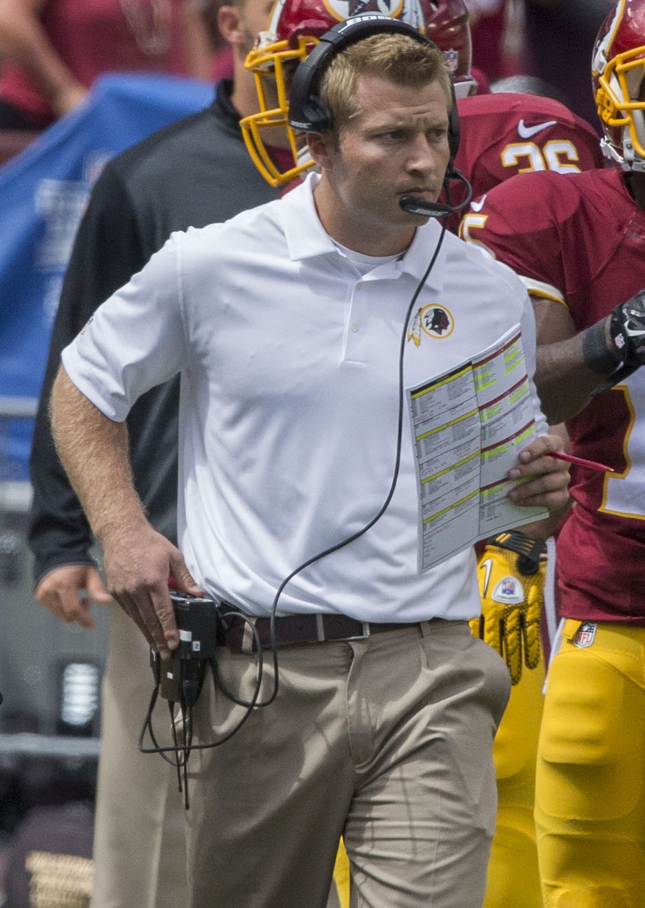 Sean McVay 14 September 2014